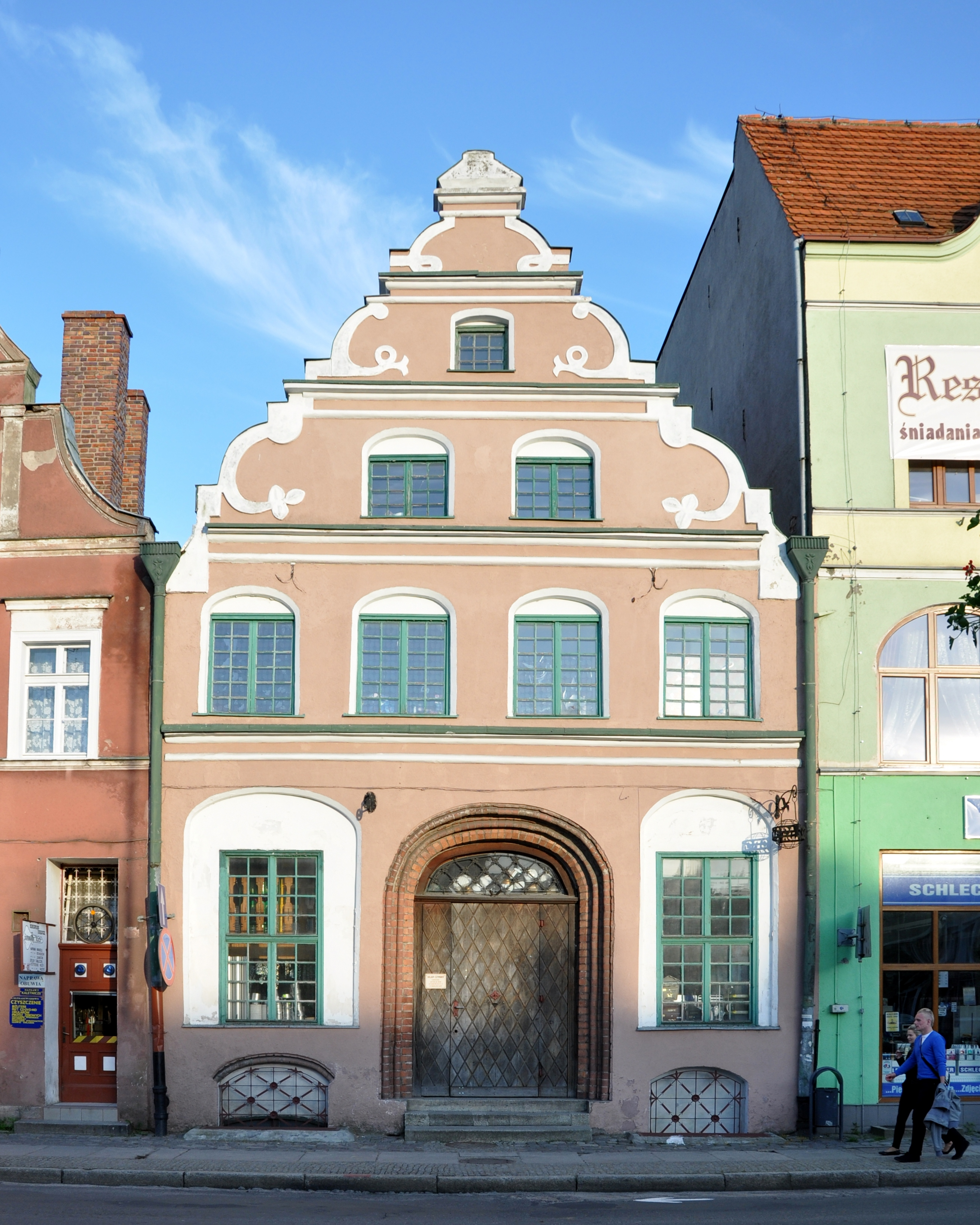 House No. 27 at the Market Square in Trzebiatów, Poland